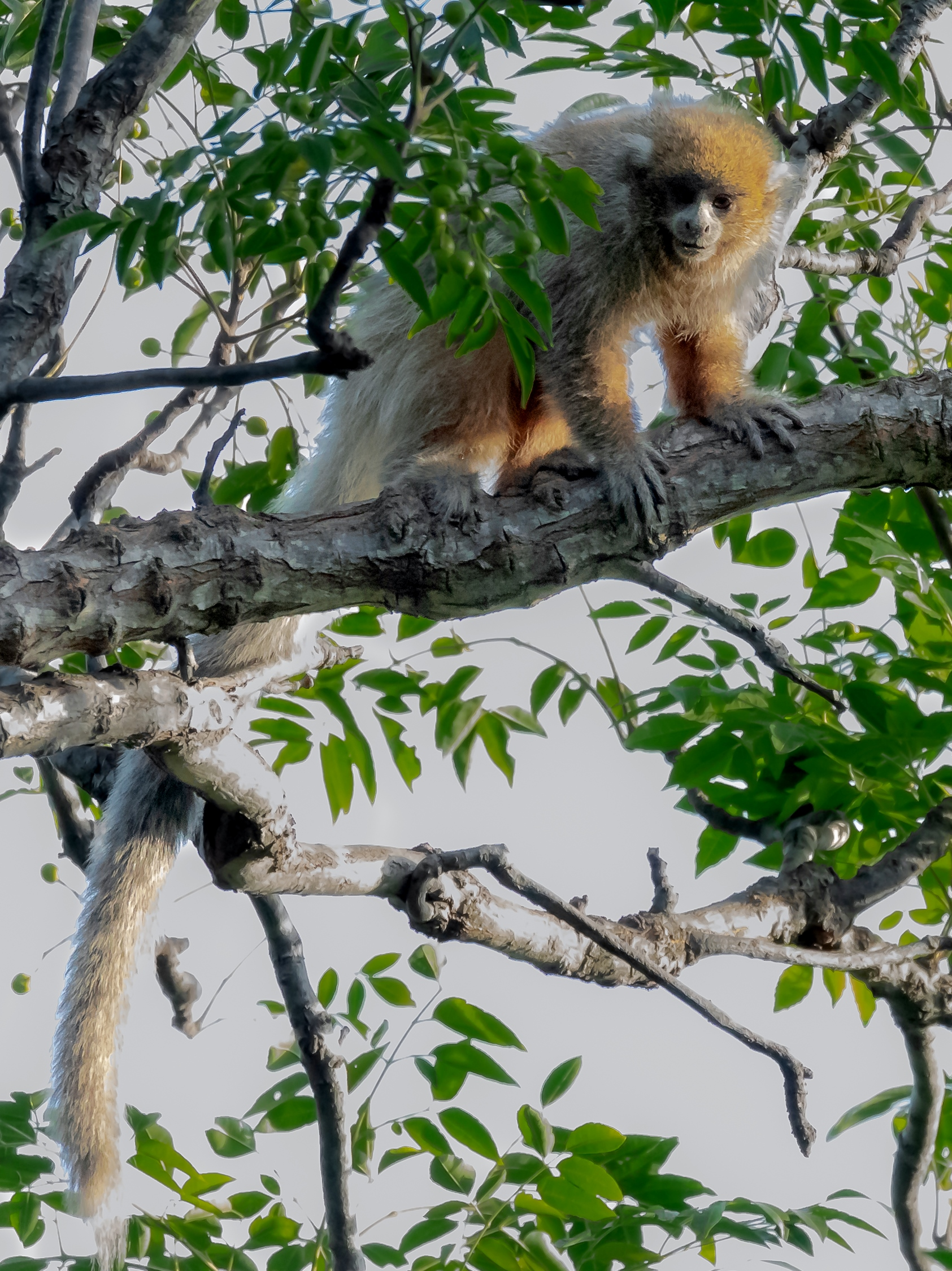 White-coated titi; Corumbá, Mato Grosso do Sul, Brazil